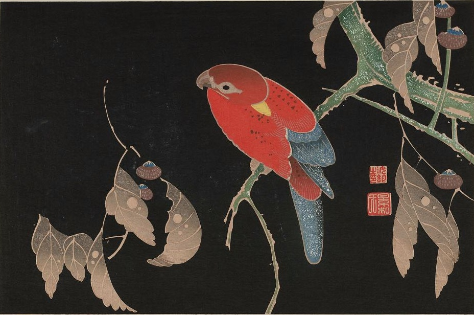 woodblock print, ishizuri-e, Itō Jakuchū, parront on tree, reprint from Meiji-period